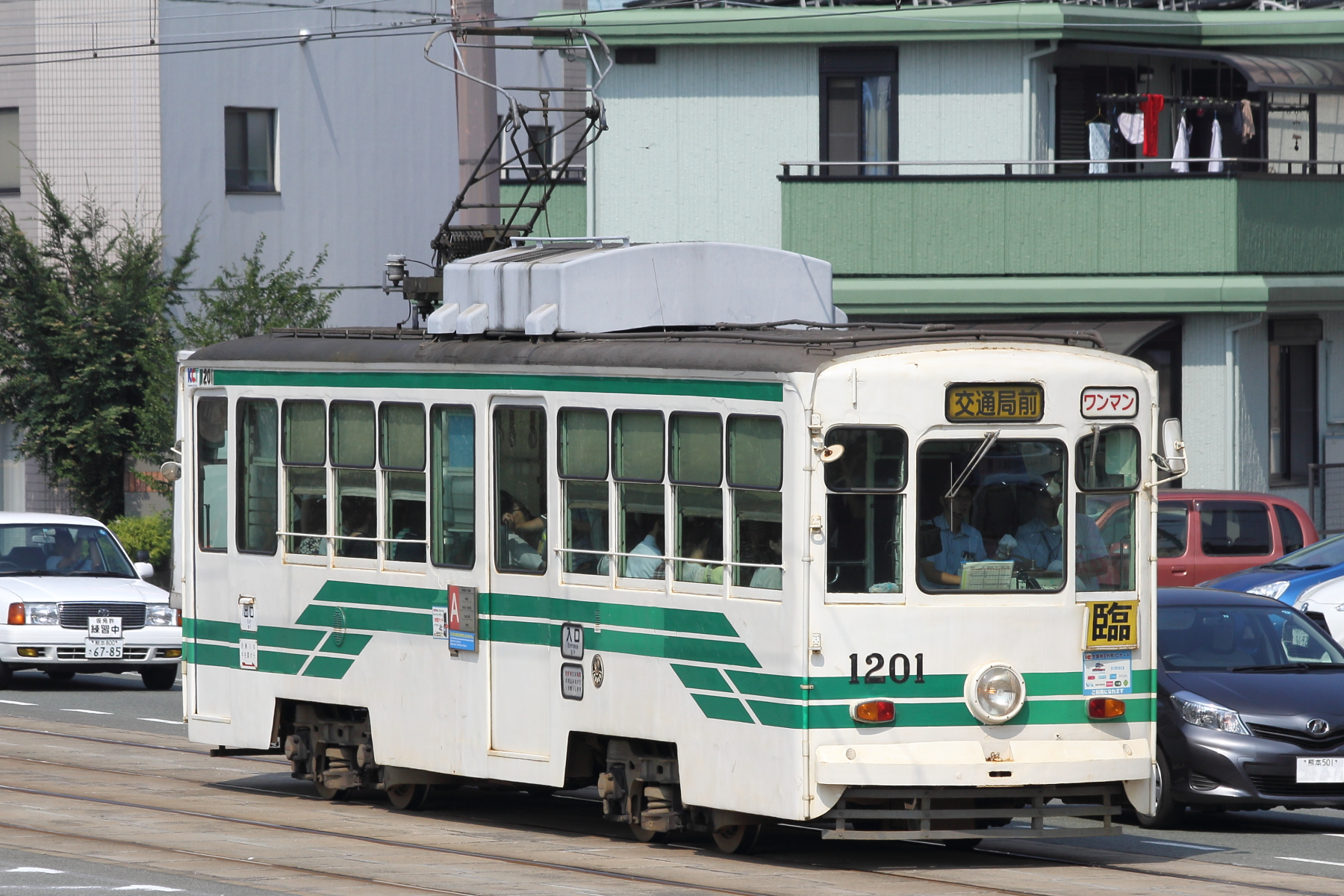 Kumamoto City Tram No.1201